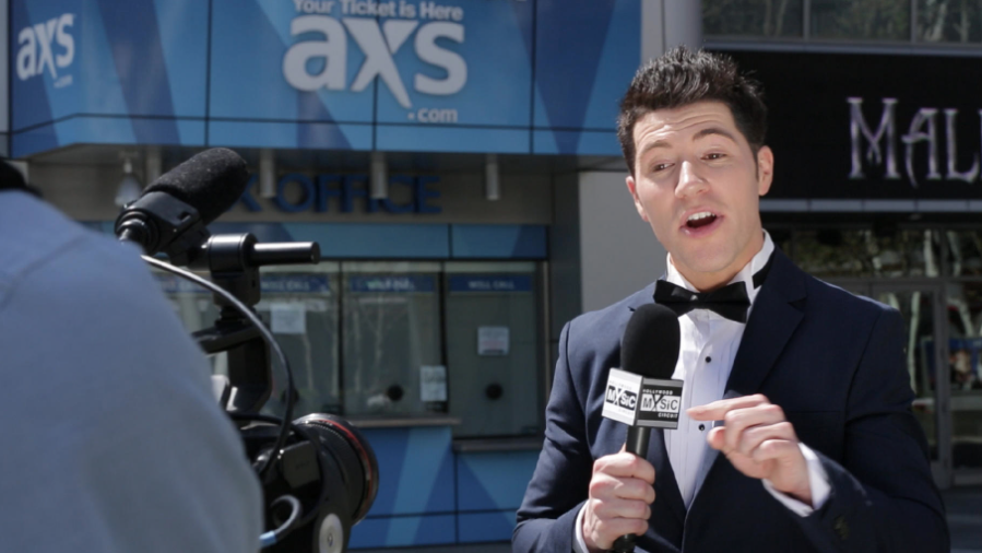 Tommy Proulx, Host at Nokia Theater